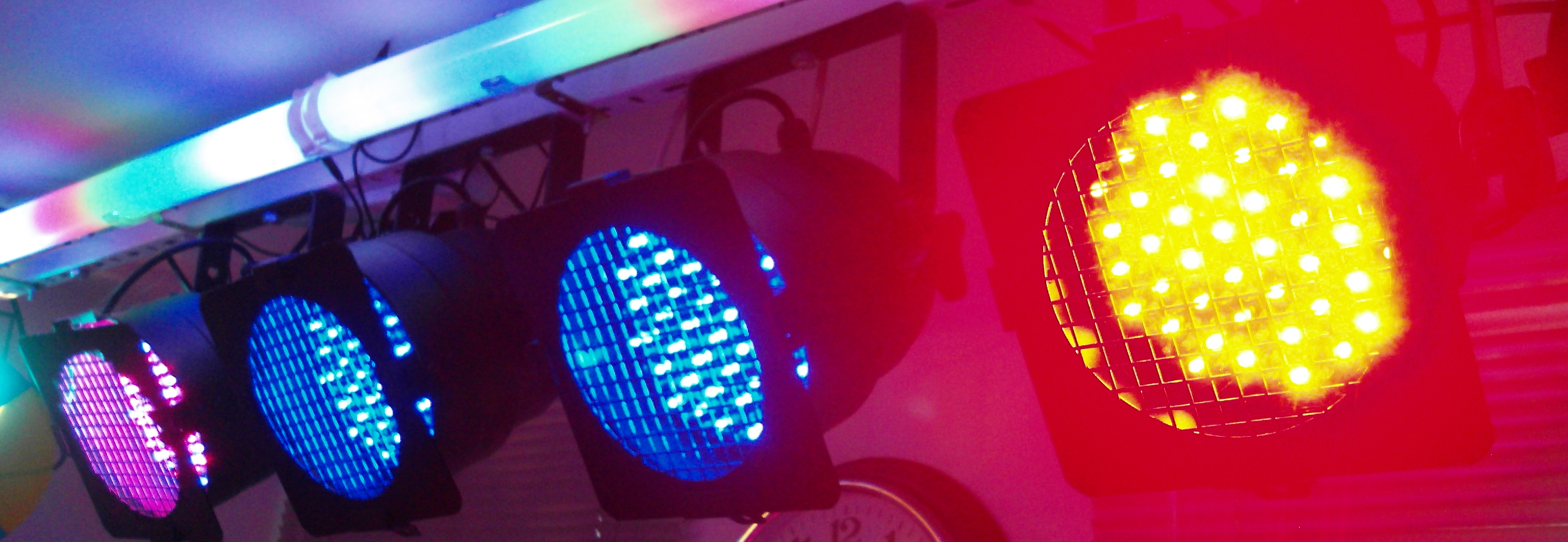 LED headlights multicolored Digital Multiplex ( DMX) PAR similar